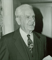 Congressman William Huston Natcher